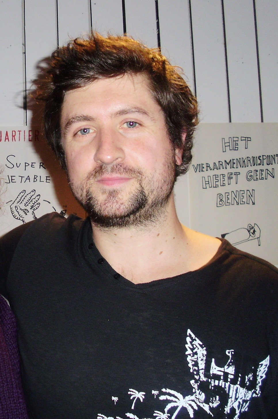 Tom Helsen